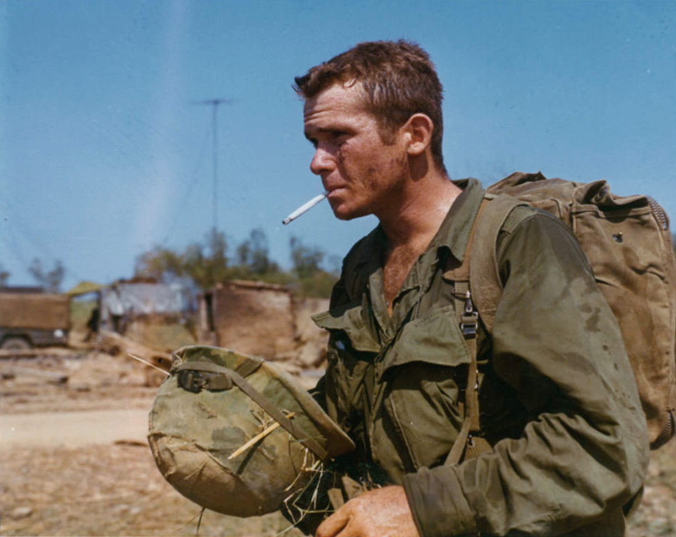 CC 33716 Republic of Vietnam: PFC Roger K. Chale (Grand Forks, N.D.), Hq and Hq Co, 1st Bn, 327th Inf., wends his weary way back to his tent after an all-night ambush patrol. His face shows the strain of combat. Operation "Harrison" was launched by the 101st Abn Div in the Rice Bowl area near Tuy Hon. The operation was to search, sweep and destroy the Viet Cong in an area that was not swept by American forces in the past.